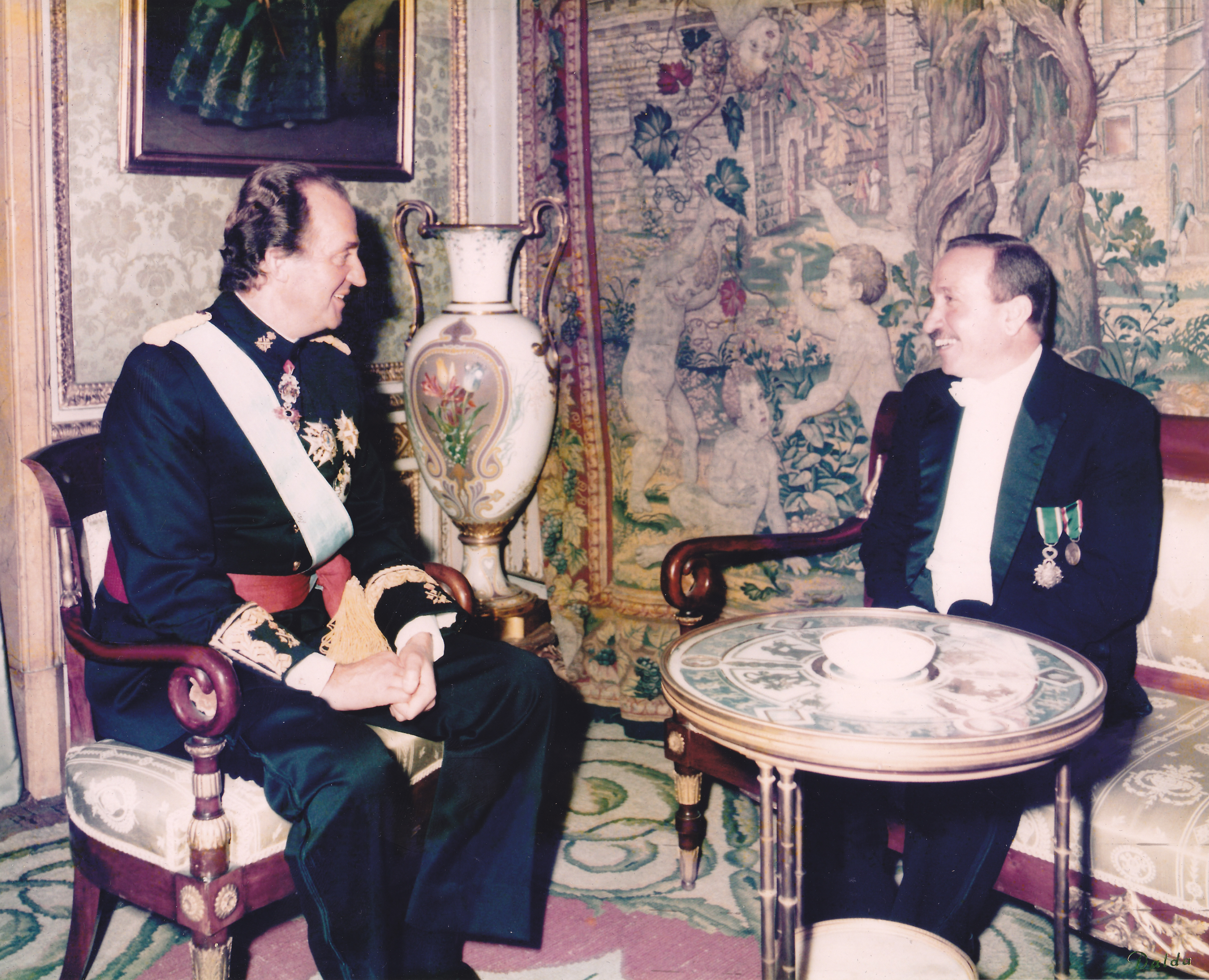 Photo taken in a public ceremony during the presentation of credentials by the Algerian ambassador Khatib to HM Juan Carlos I, king of Spain in 1988